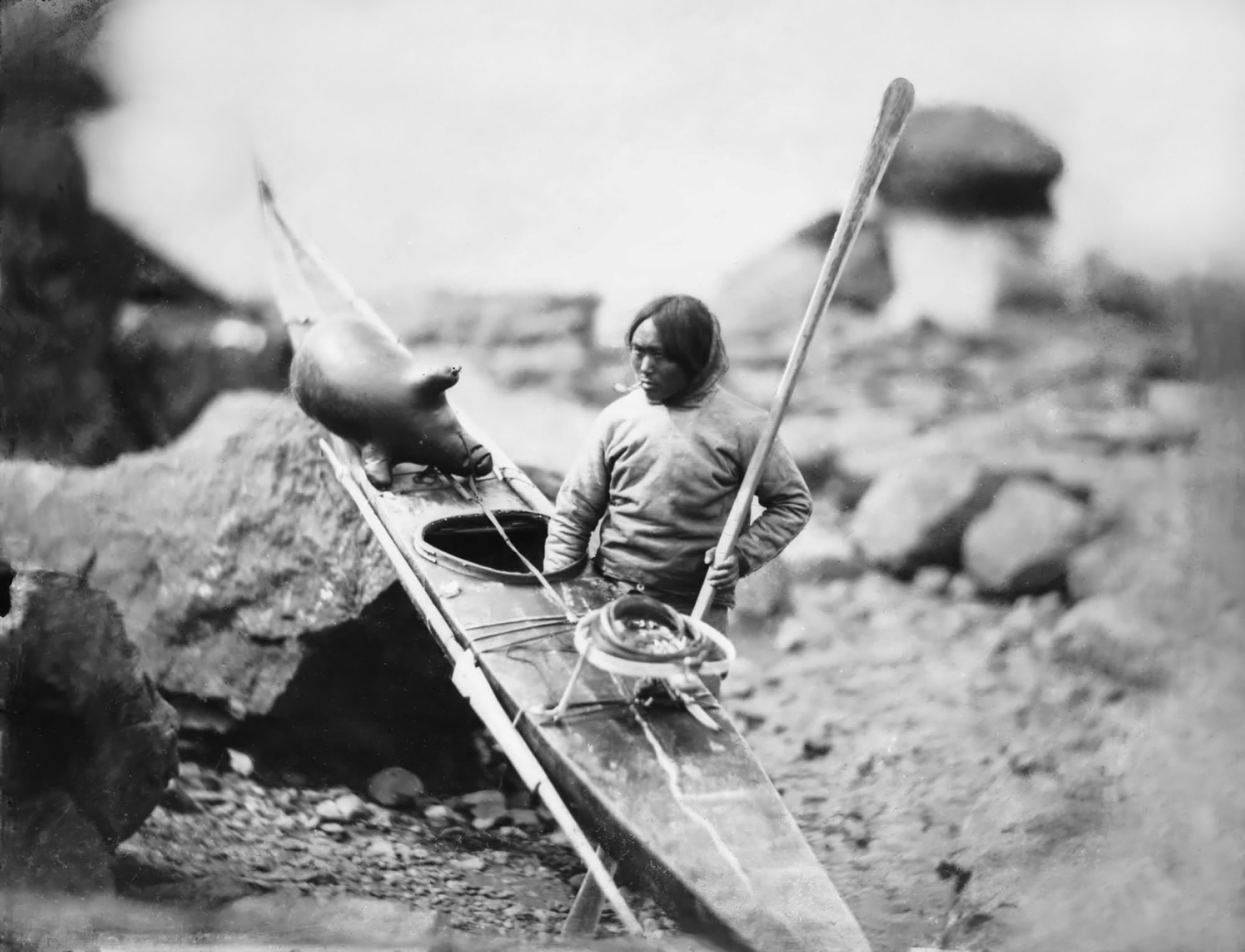 Reproduction ID: G4267 Maker: Captain Edward Augustus Inglefield Date: 1854